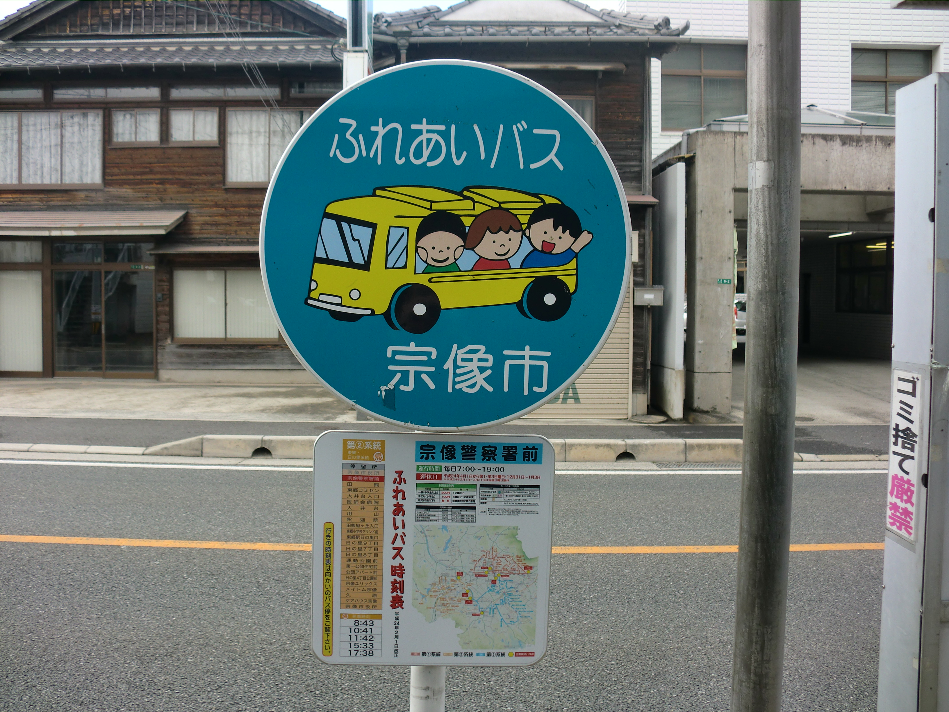 The Munakata keisatsusho-mae (Munakata Police Station) bus stop of Munakata Fureai Bus